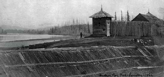 A view of Fort Langley, a Hudson's Bay Company Post in British Columbia, in 1862